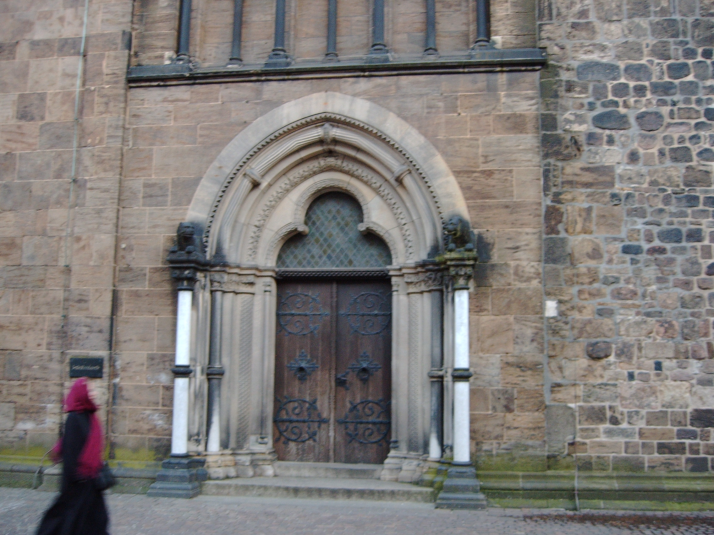 DownTown - Bremen City in Germany.